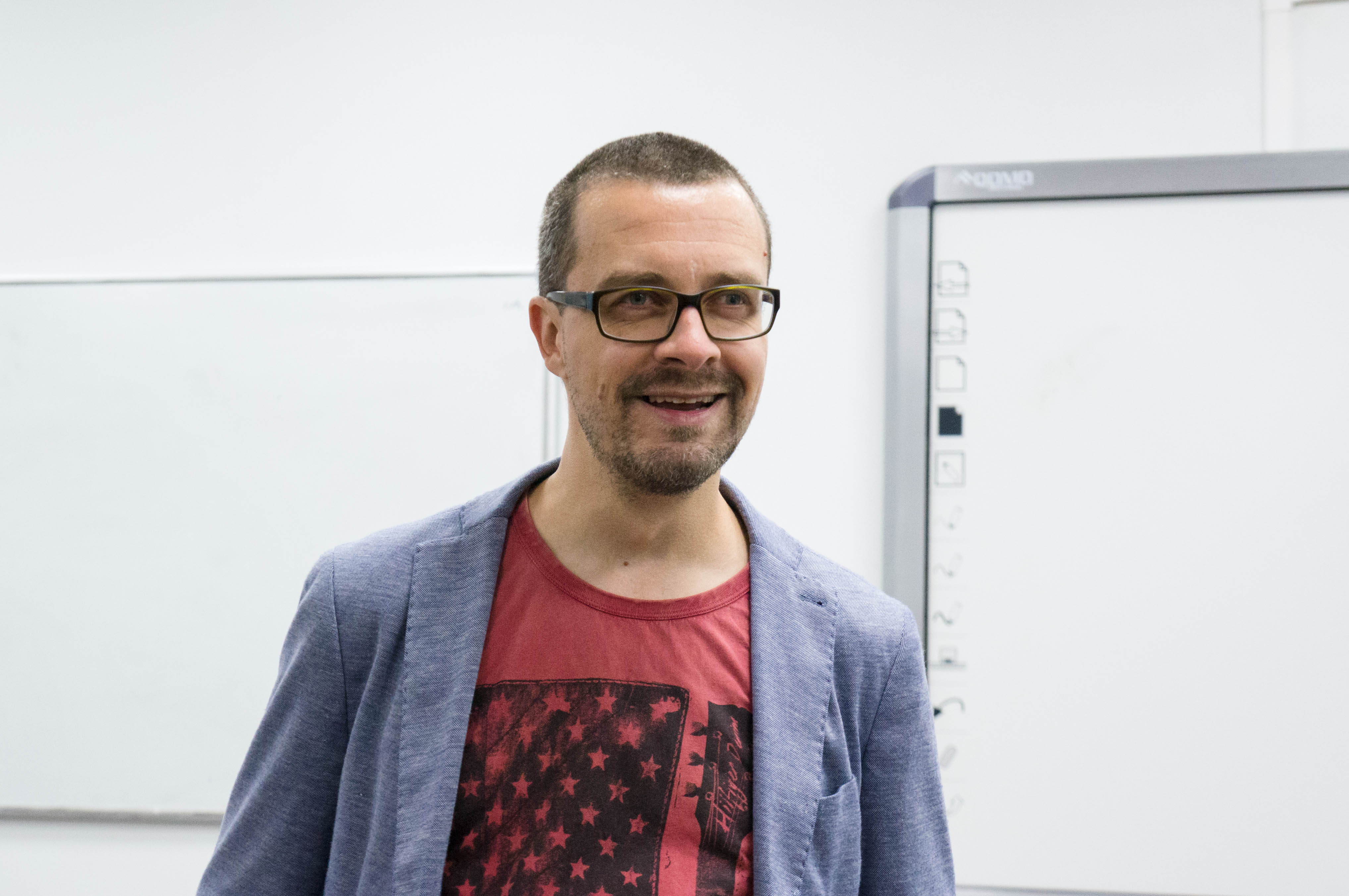 Gregor Büning, creator of Science Slam